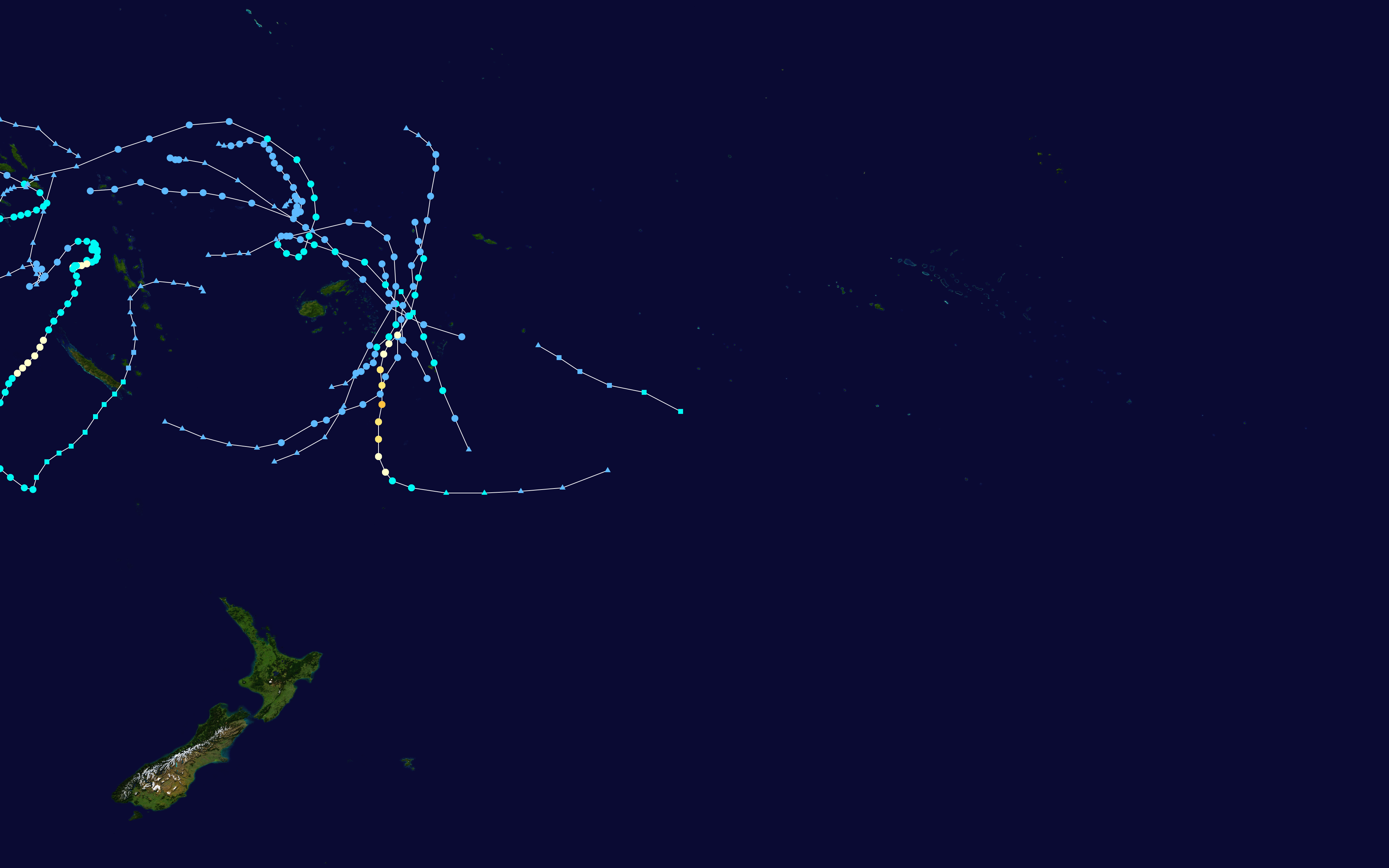 This map shows the tracks of all tropical cyclones in the 2018-19 South Pacific cyclone season. The points show the location of each storm at 6-hour intervals. The colour represents the storm's maximum sustained wind speeds as classified in the Saffir-Simpson Hurricane Scale (see below), and the shape of the data points represent the type of the storm. Saffir–Simpson scale Tropical depression≤38 mph≤62 km/h Category 3111–129 mph178–208 km/h Tropical storm39–73 mph63–118 km/h Category 4130–156 mph209–251 km/h Category 174–95 mph119–153 km/h Category 5≥157 mph≥252 km/h Category 296–110 mph154–177 km/h Unknown Storm type Tropical cyclone Subtropical cyclone Extratropical cyclone / Remnant low / Tropical disturbance / Monsoon depression